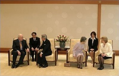 Emperor Akihito and Empress Michiko talked with Vice President Dick Cheney and Lynne Cheney at the Imperial Palace in Chiyoda Ward, Tōkyō Metropolis, on April 13, 2004.